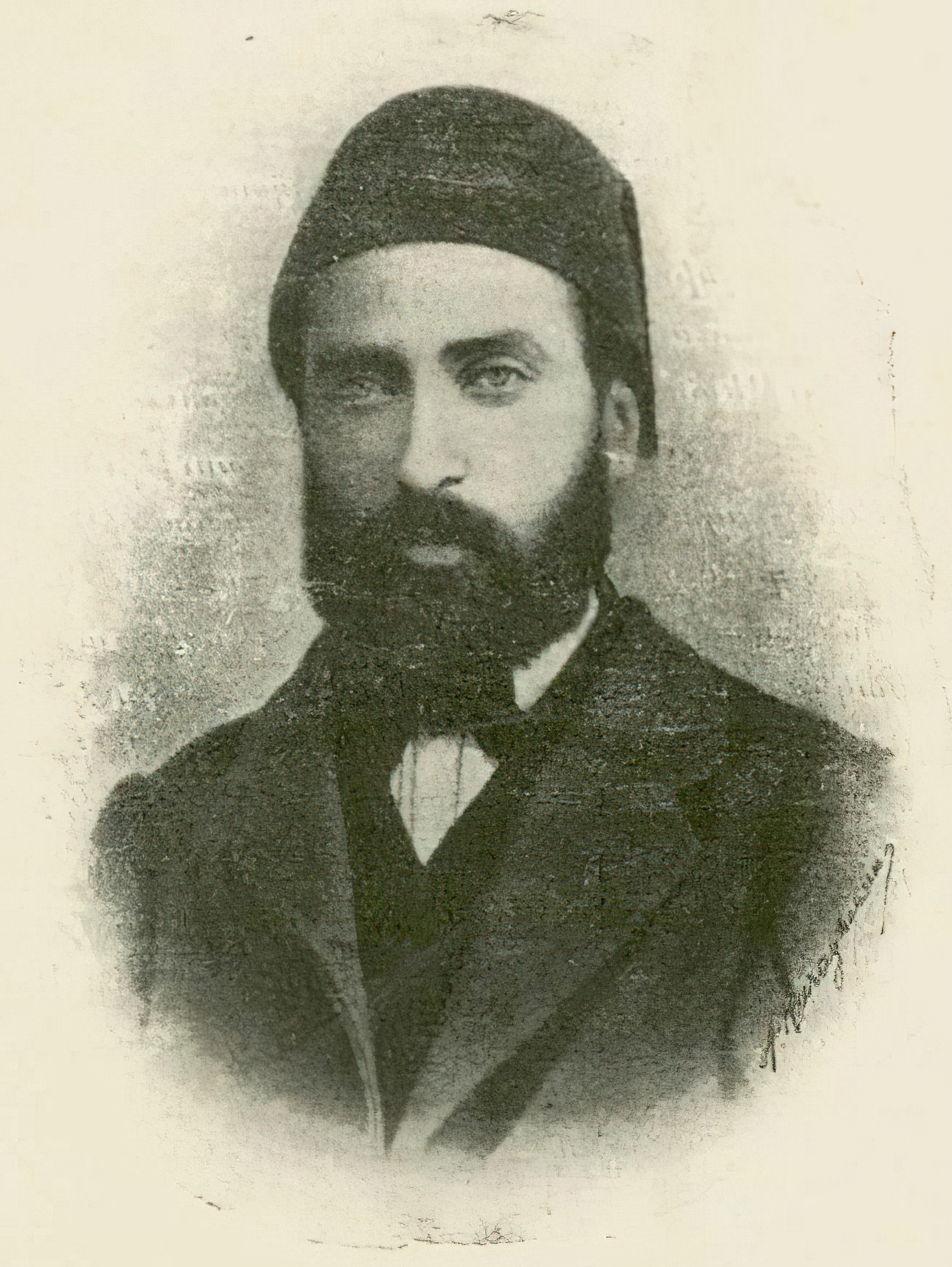 Yeghia Tntesyan